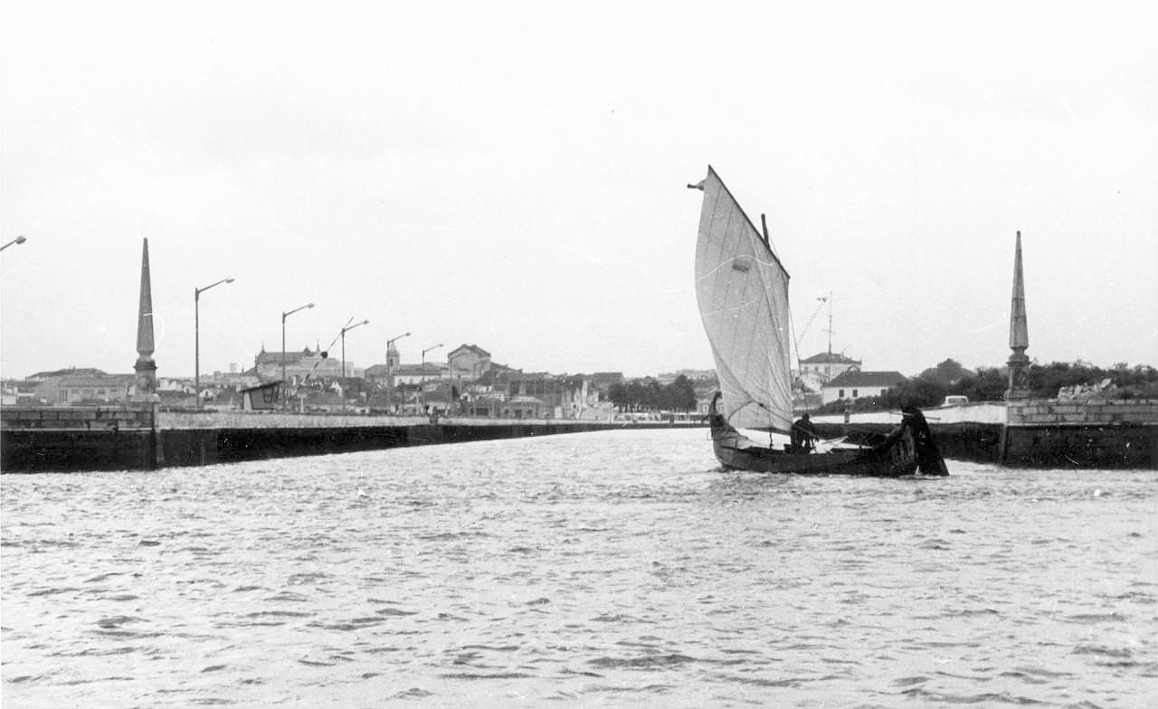 Entrance to Canal das Pirâmides, Aveiro, Portugal. circa 1950